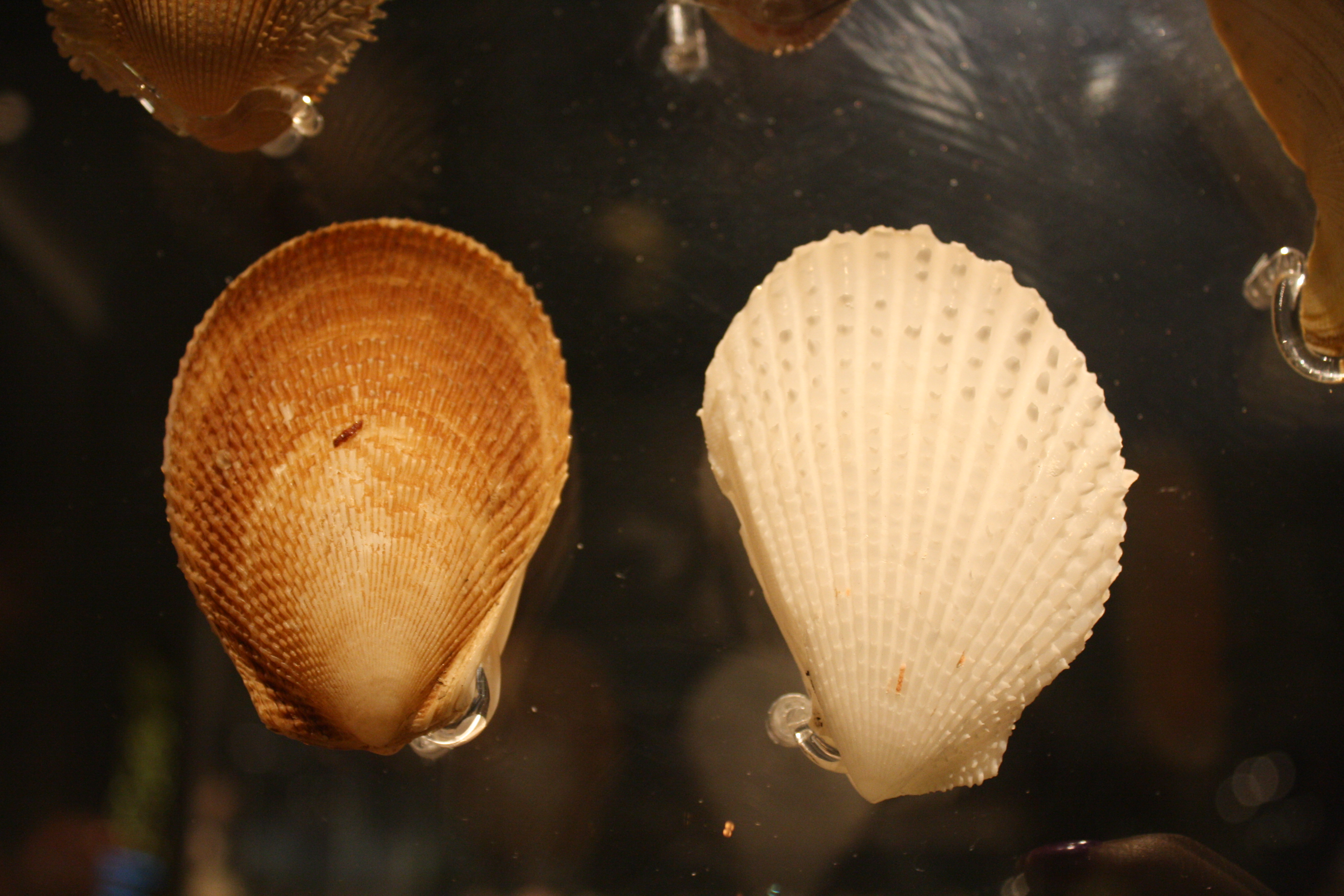 Lima scabra (Rough Lima) Bisayne Bay, FL HMNS 18212 Lima lima (Spiny Lima) Philippines HMNS 21061 Wikipedia Loves Art at the Houston Museum of Natural Science This photo of item # [1] at the Houston Museum of Natural Science was contributed under the team name "The_Wookies" as part of the Wikipedia Loves Art project in February 2009. Houston Museum of Natural Science The original photograph on Flickr was taken by andytang20—please add a comment to the original Flickr page whenever a use has been made on Wikipedia or another project. Project galleries on Flickr: this institution, this team